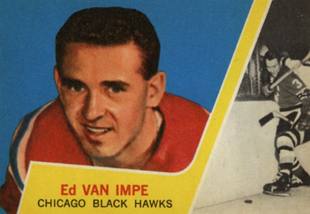 Ed Van Impe